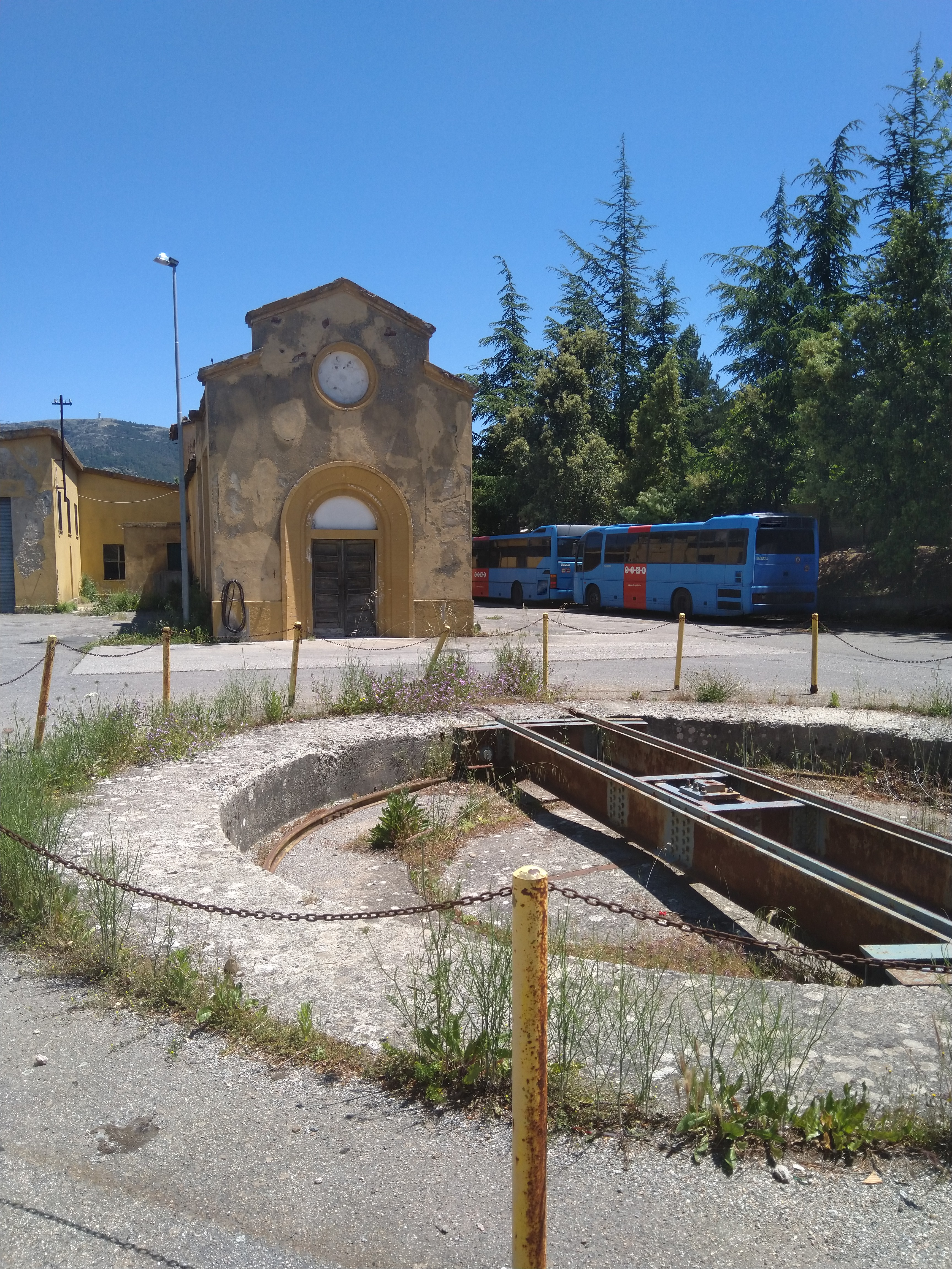 Railway station in Gairo. The turning platform with the engine shed.